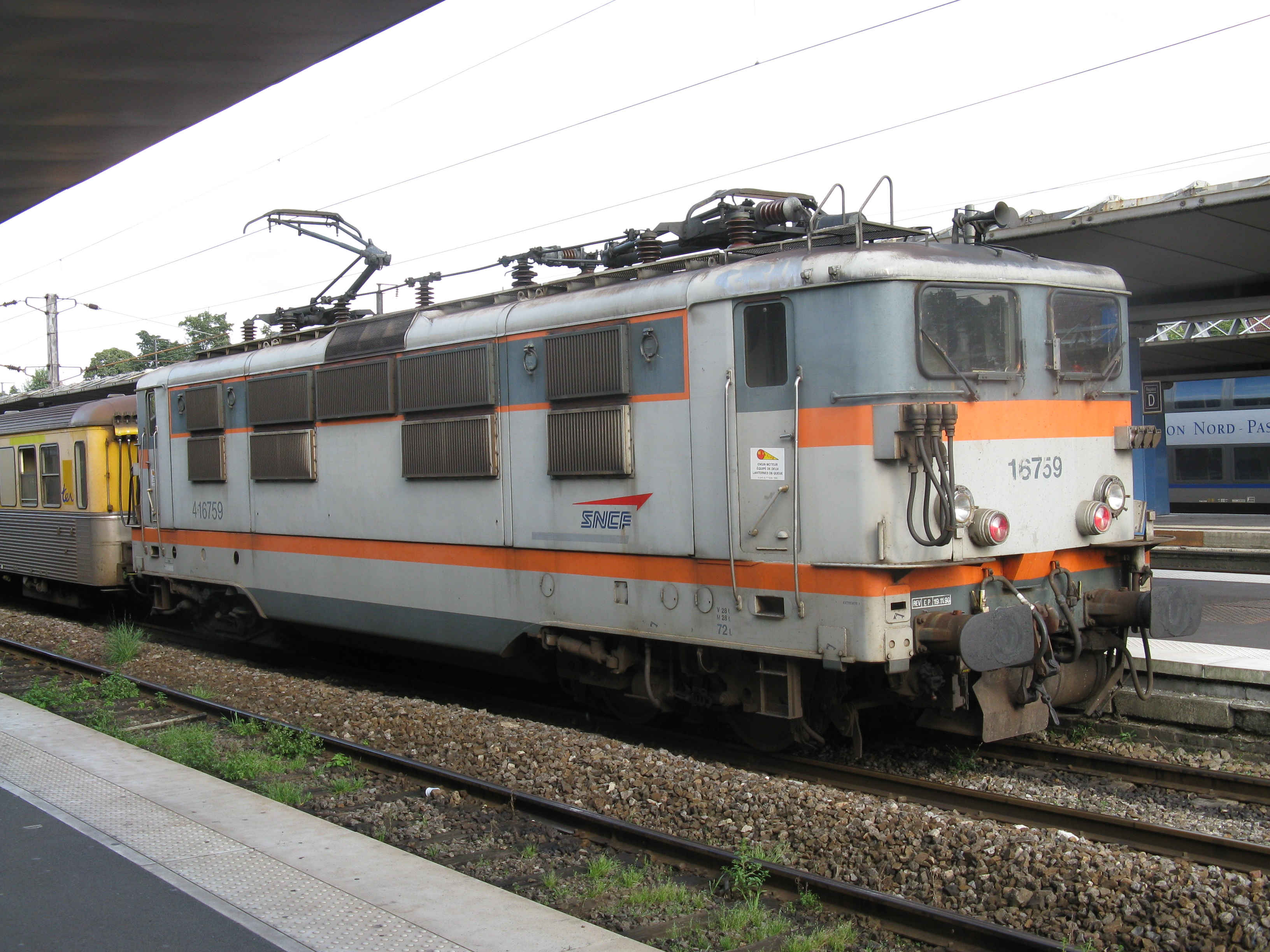 SNCF Class BB 16500 no. 16759 at Arras, 1st September 2008